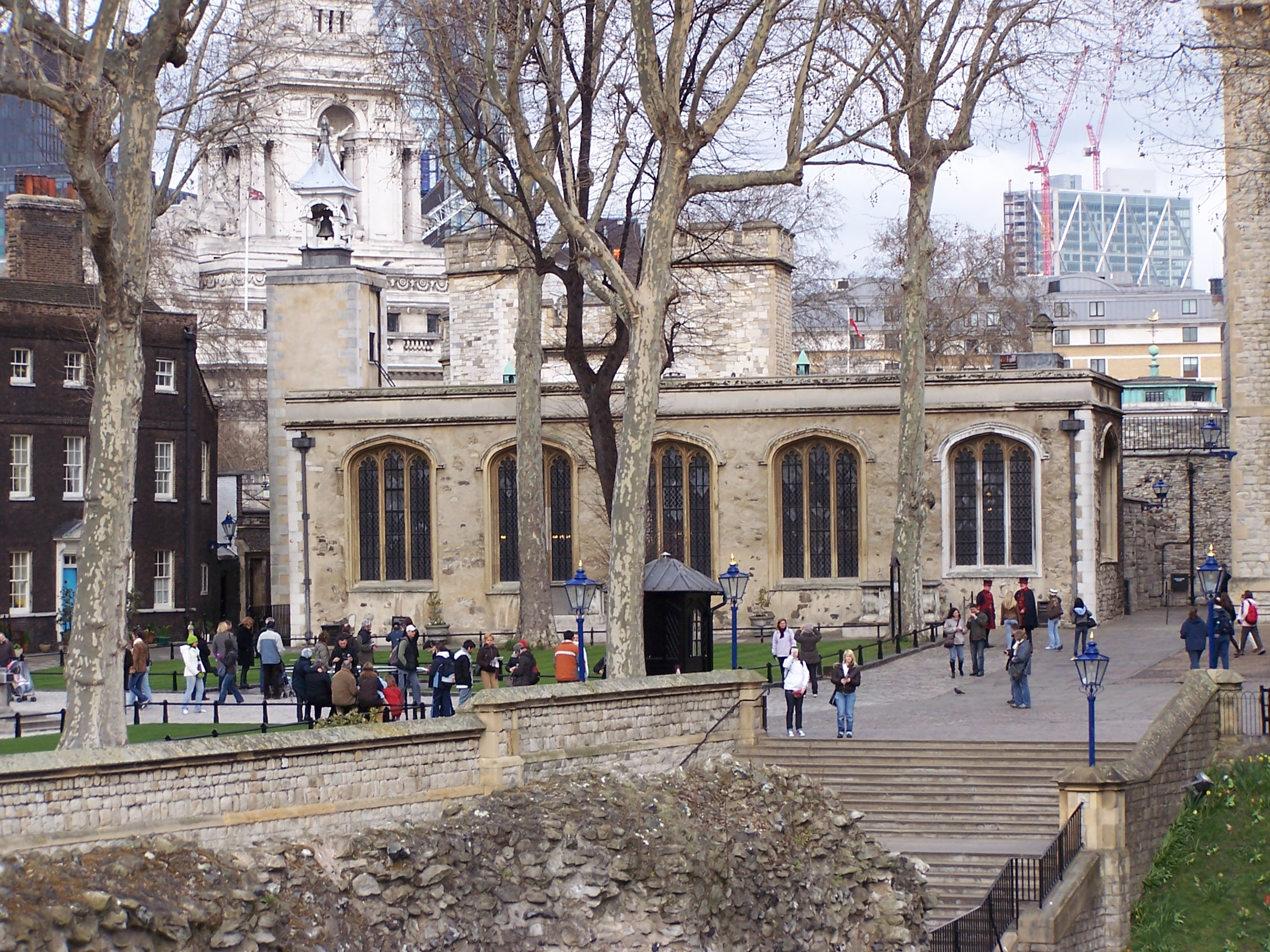 St. Peter av Vincula in the Tower of London